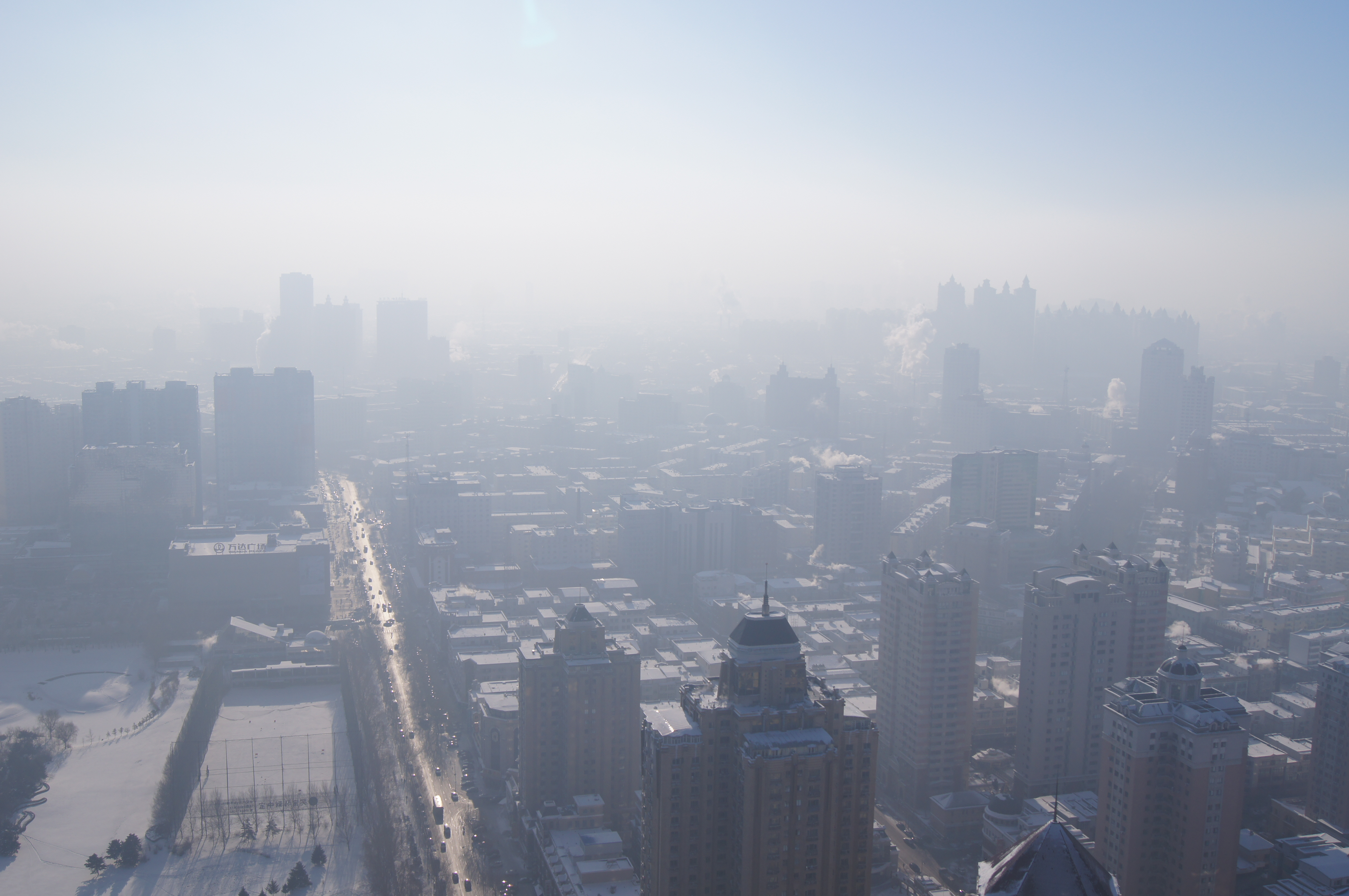 An image depicting the heavy levels of smog in Harbin, China.